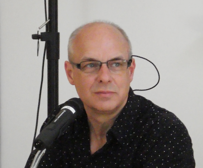 Brian Eno at the Museo Madre di Napoli